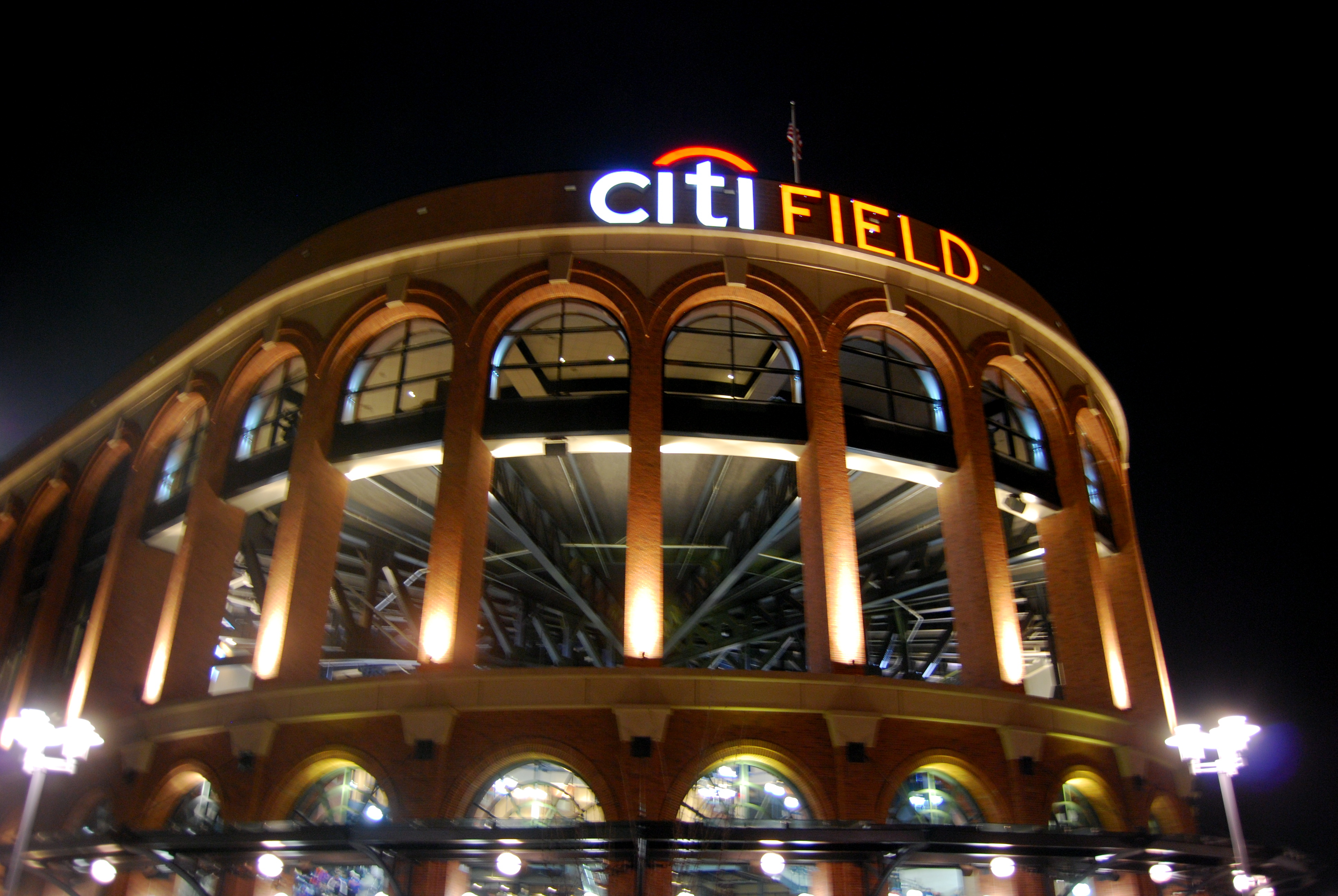 Citi Field at Night